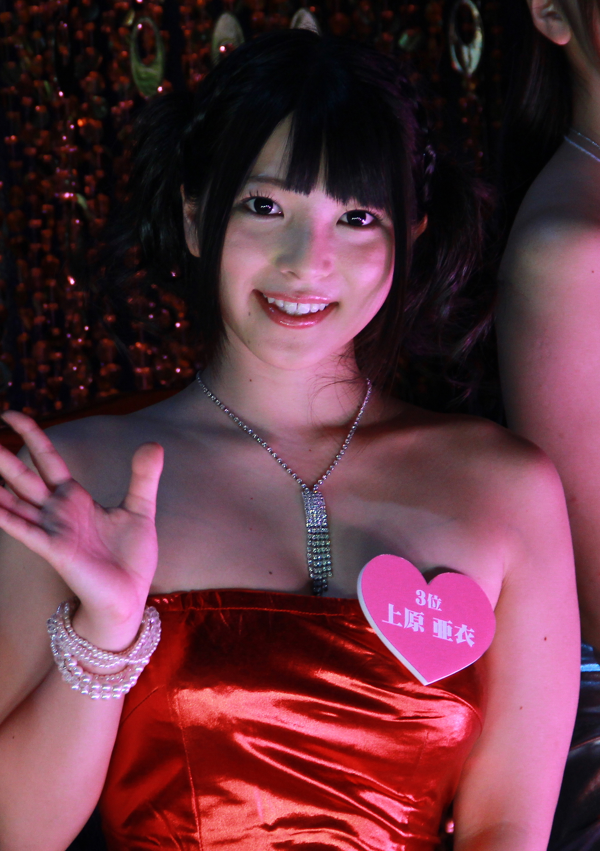 Ai Uehara at Tokyo Game Show 2014